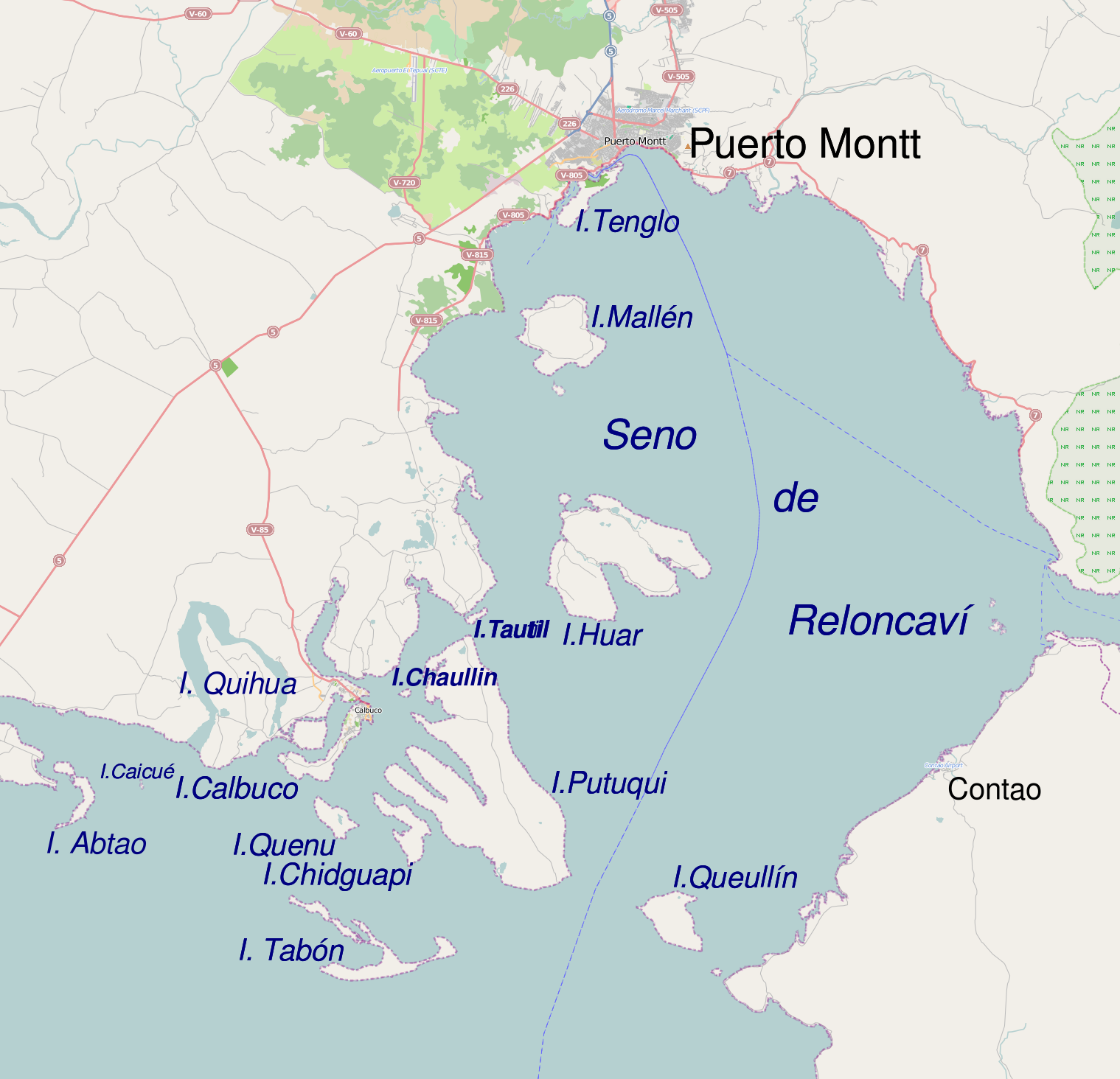 Calbuco archipielago, Puerto Montt, Reloncavi, Huar, Tenglo, Abtao